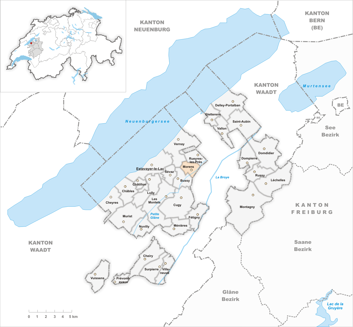 Municipality Morens